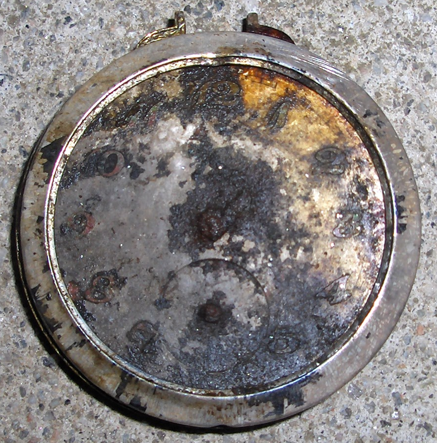 Silver pocket watch found on a former WWII-built coastal fort.